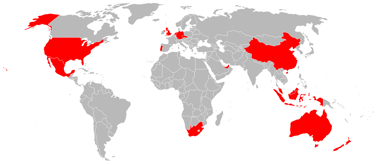 A map of the world showing the geographical distribution of A1GP races in the past.